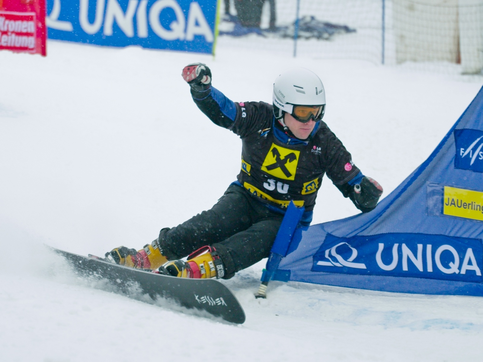 American snowboarder Tyler Jewell in the qualification round of the World Cup Parallel Slalom at the Jauerling in Austria on 13 January 2012.